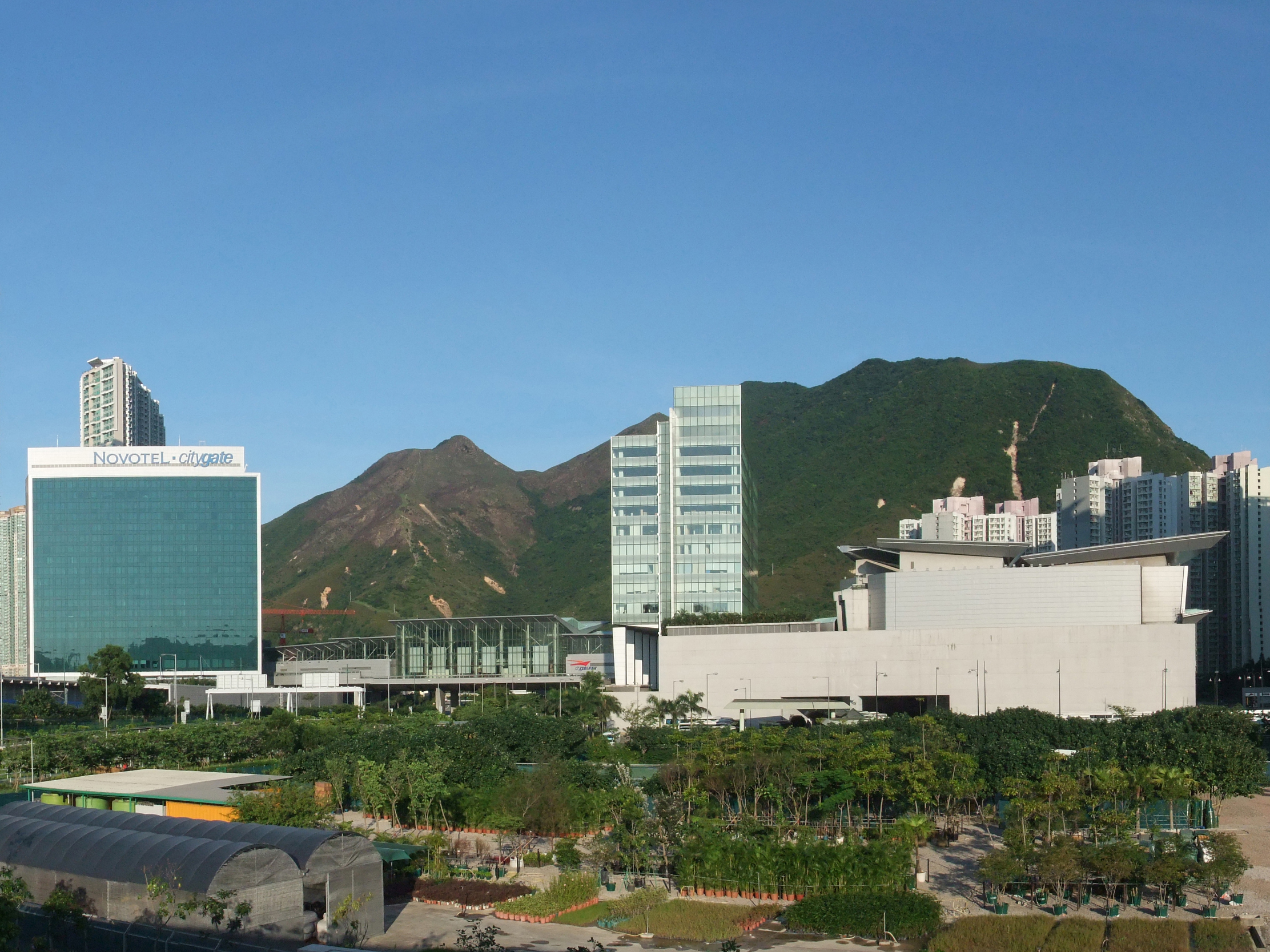 Photo of Por Kai Shan and Pok To Yan